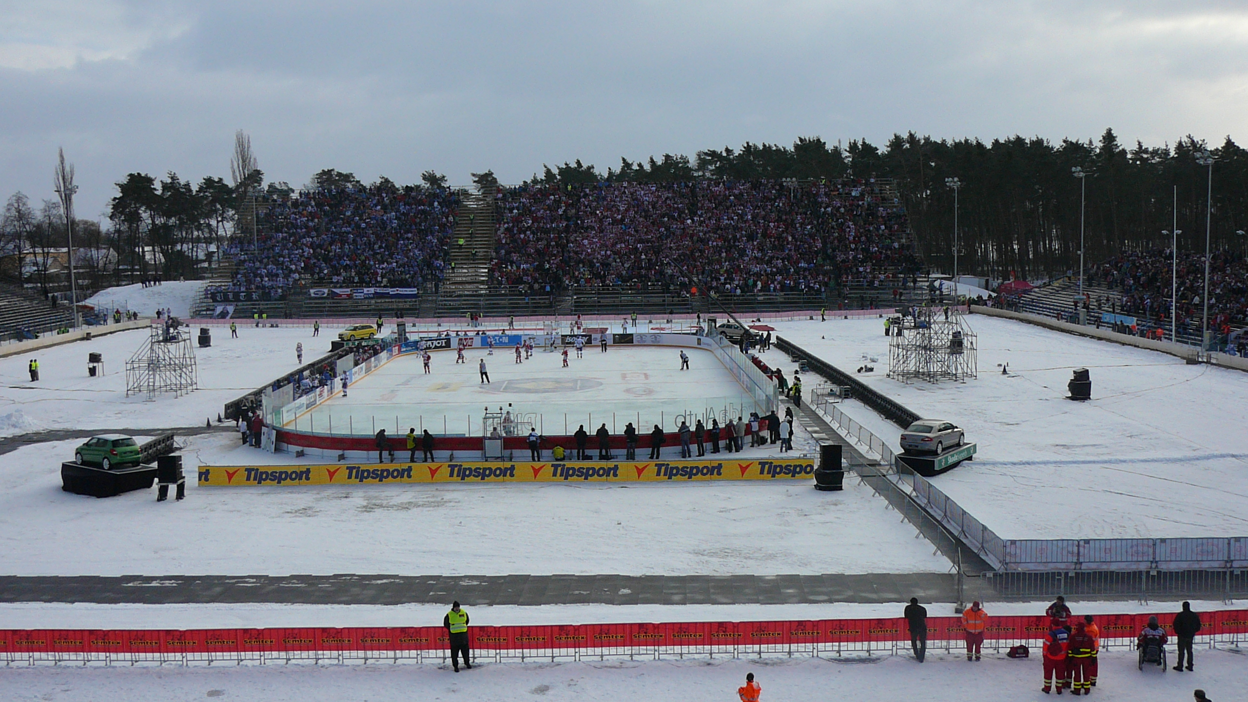 Hockey Open Air Game Pardubice 2011